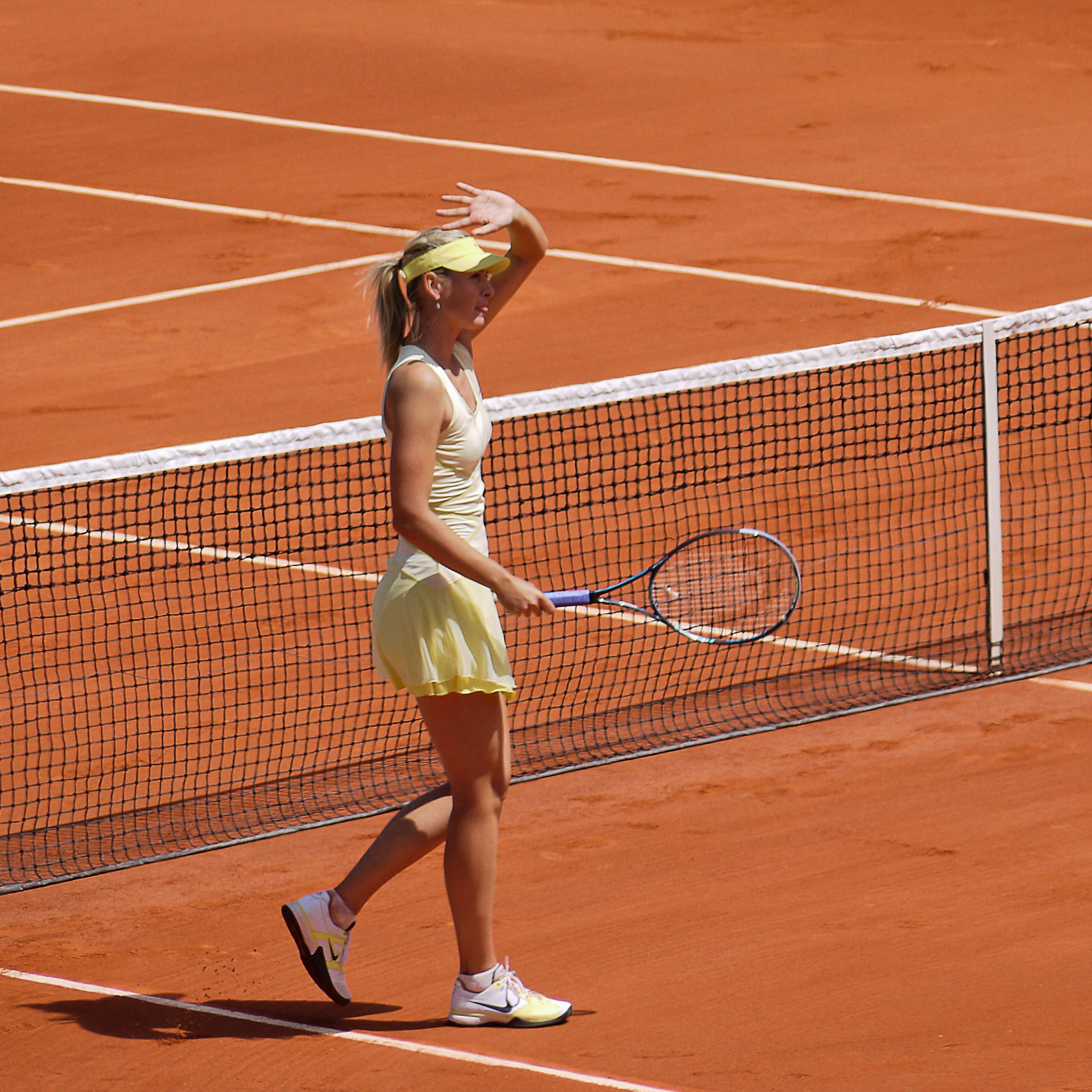 Maria Sharapova (RUS) def. Mirjana Lucic (CRO) Roland Garros 2011 - mardi 24 mai - 1er tour - Court Philippe Chatrier 2011 Roland Garros.